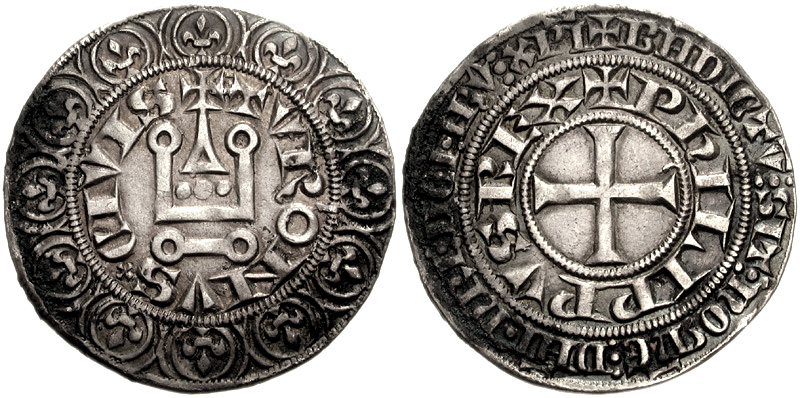 France. Philippe V de France (1316-1322). AR Gros Tournois (27mm, 3.95 g). +PhILIPPVS + REX, short cross TVRONVS + CIVIS, castle within border of twelve lis. Duplessy 238; DeMey 162 var.